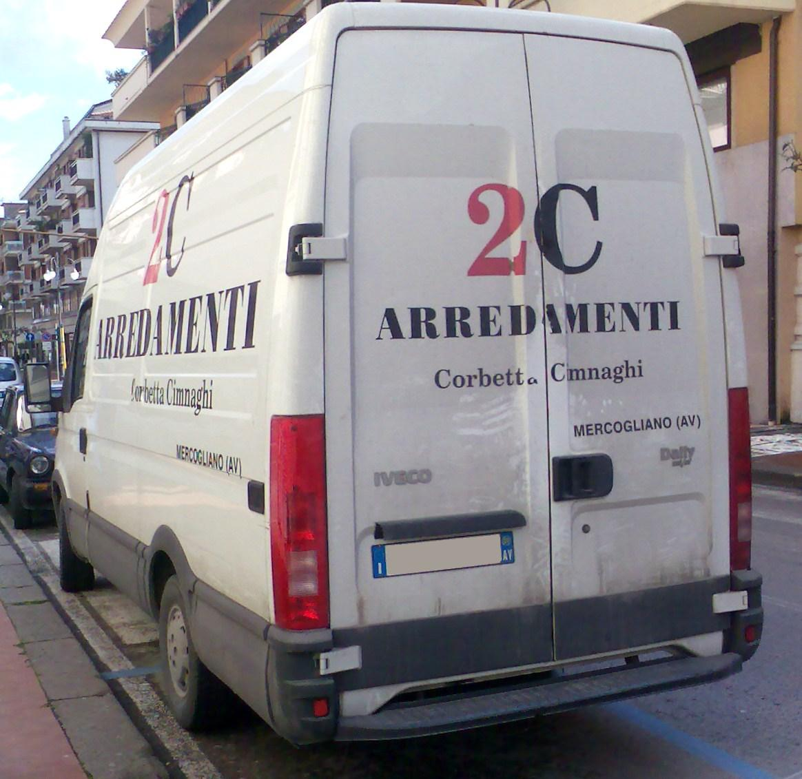 Iveco Daily 35S13.